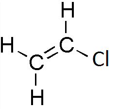 Chemical structure of vinyl chloride